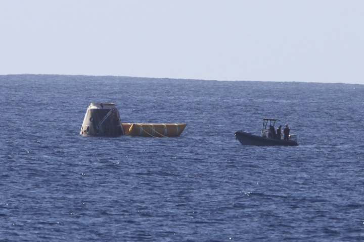 CAPE CANAVERAL, Fla. -- The Dragon capsule that launched from Launch Complex-40 at Cape Canaveral Air Force Station aboard a SpaceX Falcon 9 rocket is recovered in the Pacific Ocean about 500 miles west of the coast of Mexico. The rocket lifted off at 10:43 a.m. EST. The spacecraft went through several maneuvers before it re-entered the atmosphere and splashed down at about 2 p.m. EST. This is first demonstration flight for NASA's Commercial Orbital Transportation Services (COTS) program, which will provide cargo flights to the International Space Station in the future. Photo credit: Courtesy SpaceX